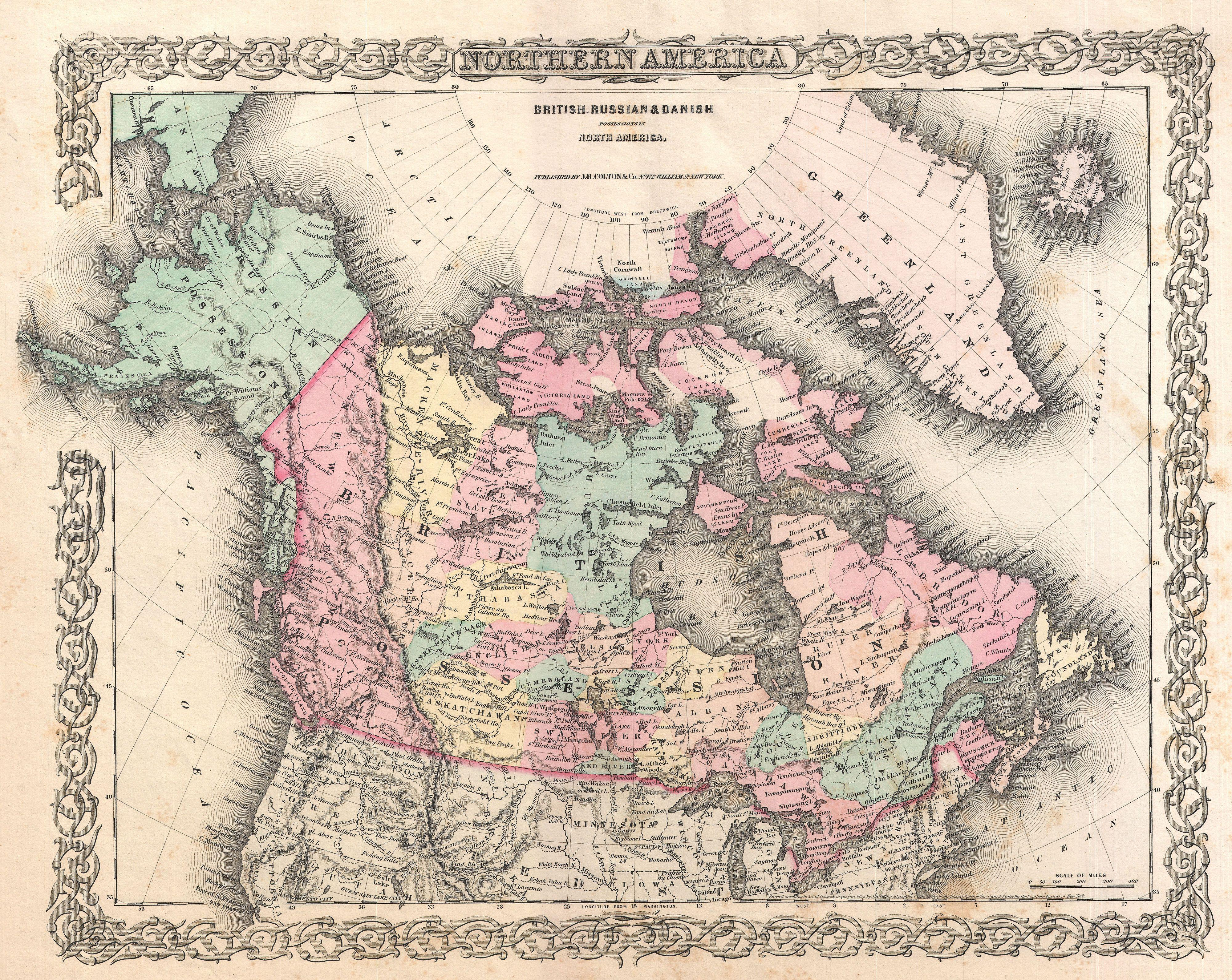 An excellent first edition example of Colton's rare map documenting Canada, or more specifically, British, Russian, and Danish holdings in North America. Covers the continent from modern day Alaska (Russian America) to Greenland (Danish America), and from the U.S border north to the Arctic. Includes Iceland. Hand colored in pink, green, yellow and blue pastels. Surrounded by Colton's typical spiral motif border. Dated and copyrighted to J. H. Colton, 1855. Published as page no. 3 in volume 1 of the first edition of George Washington Colton's 1855 Atlas of the World .